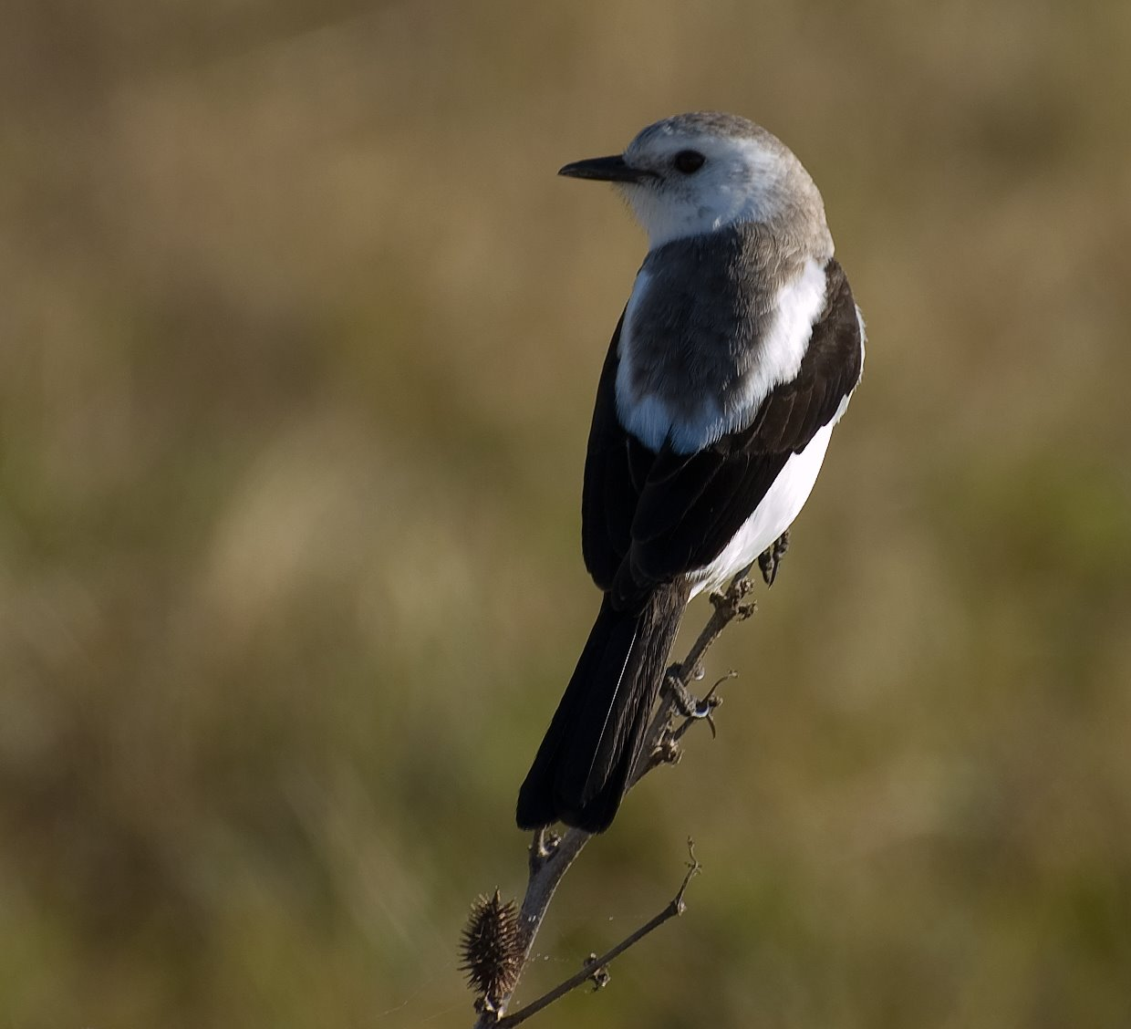 Xolmis_dominicana